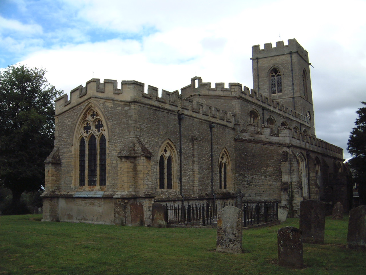 Photograph of the Church of St Firmin, North Crawley, Buckinghamshire.